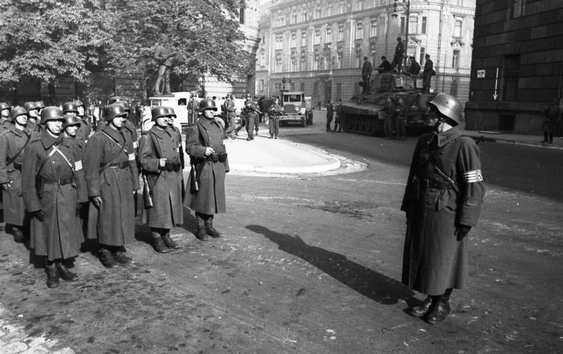 Members of the Arrowcross Party in Budapest, Dísz tér